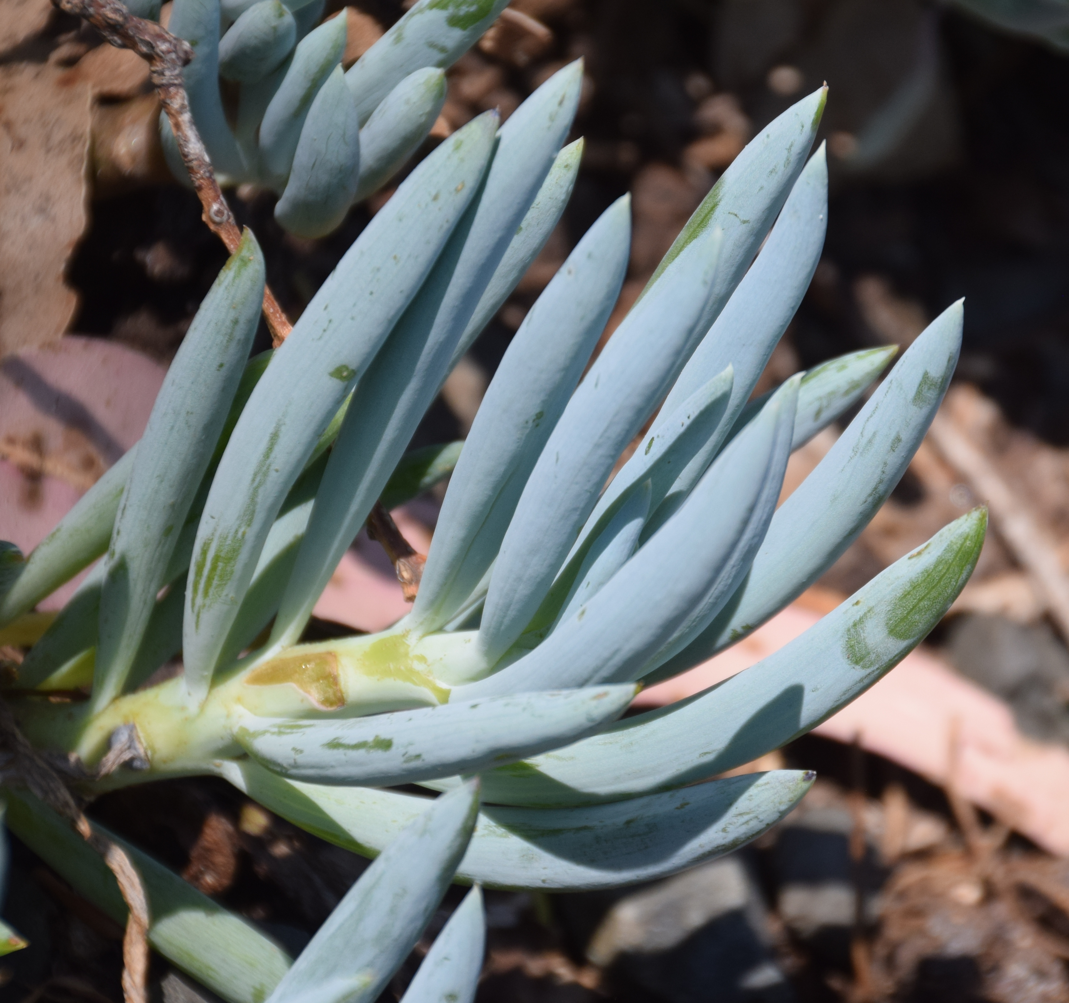 Senecio serpens in Dunedin Botanic Garden, Dunedin, New Zealand